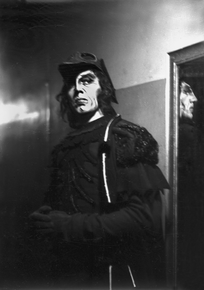 Condition: Good/fair, some fading.; Title from reference sources, see file 203/09/00017-02.; Choregraphed by David, Lichine. Lichine, David (1910 - 1972); Part of collection: The Geoffrey Ingram collection of ballet photographs from the Ballets Russes Australian tour, 1936-1940. Dancer: Dimitri Kulcizky also known as Dimitri Rostoff, see file 203/09/00017-02. Persistent URL .au/nla.pic-an24145284